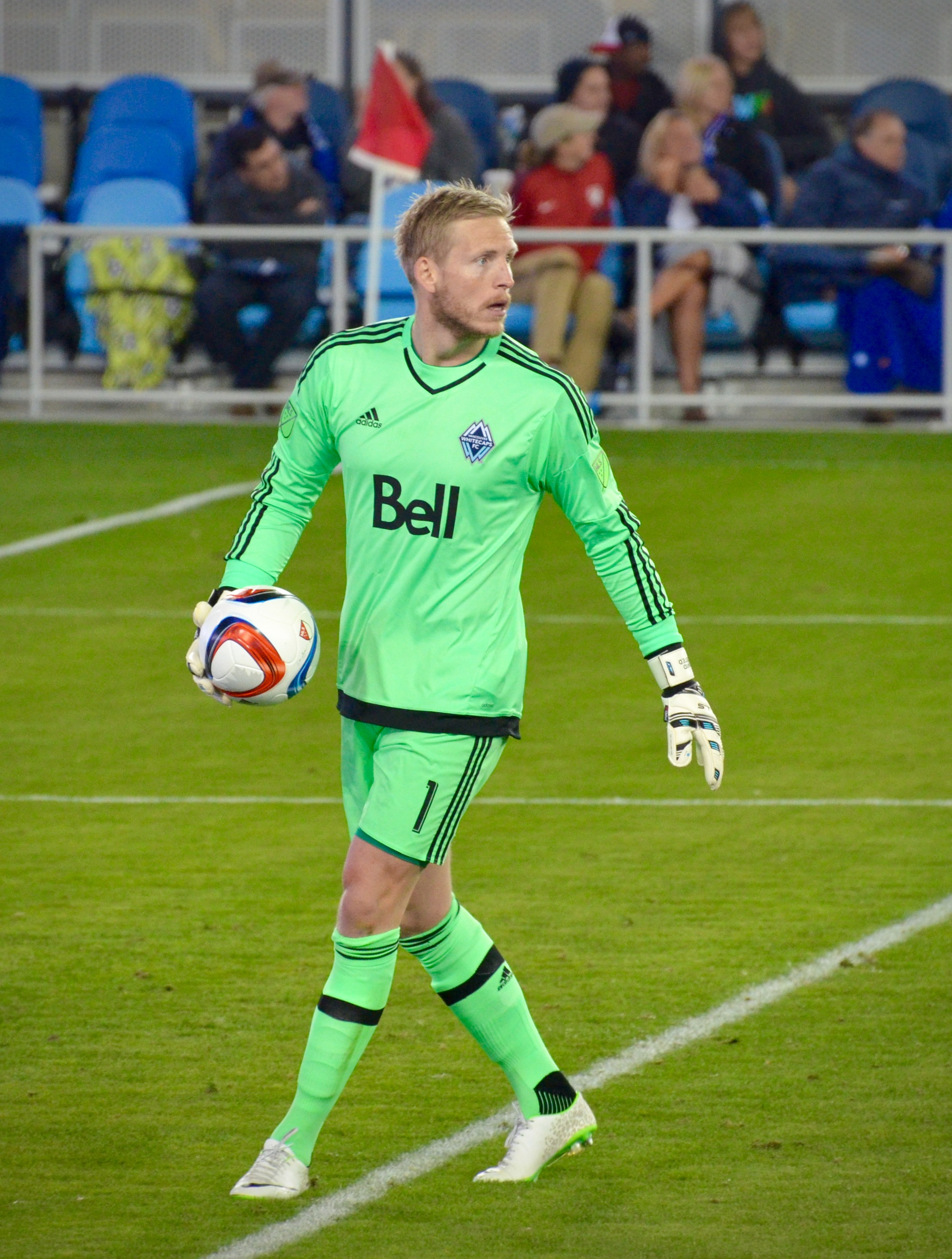 David Ousted playing for the Vancouver Whitecaps vs the San Jose Earthquakes at Avaya Stadium on 11 April 2015